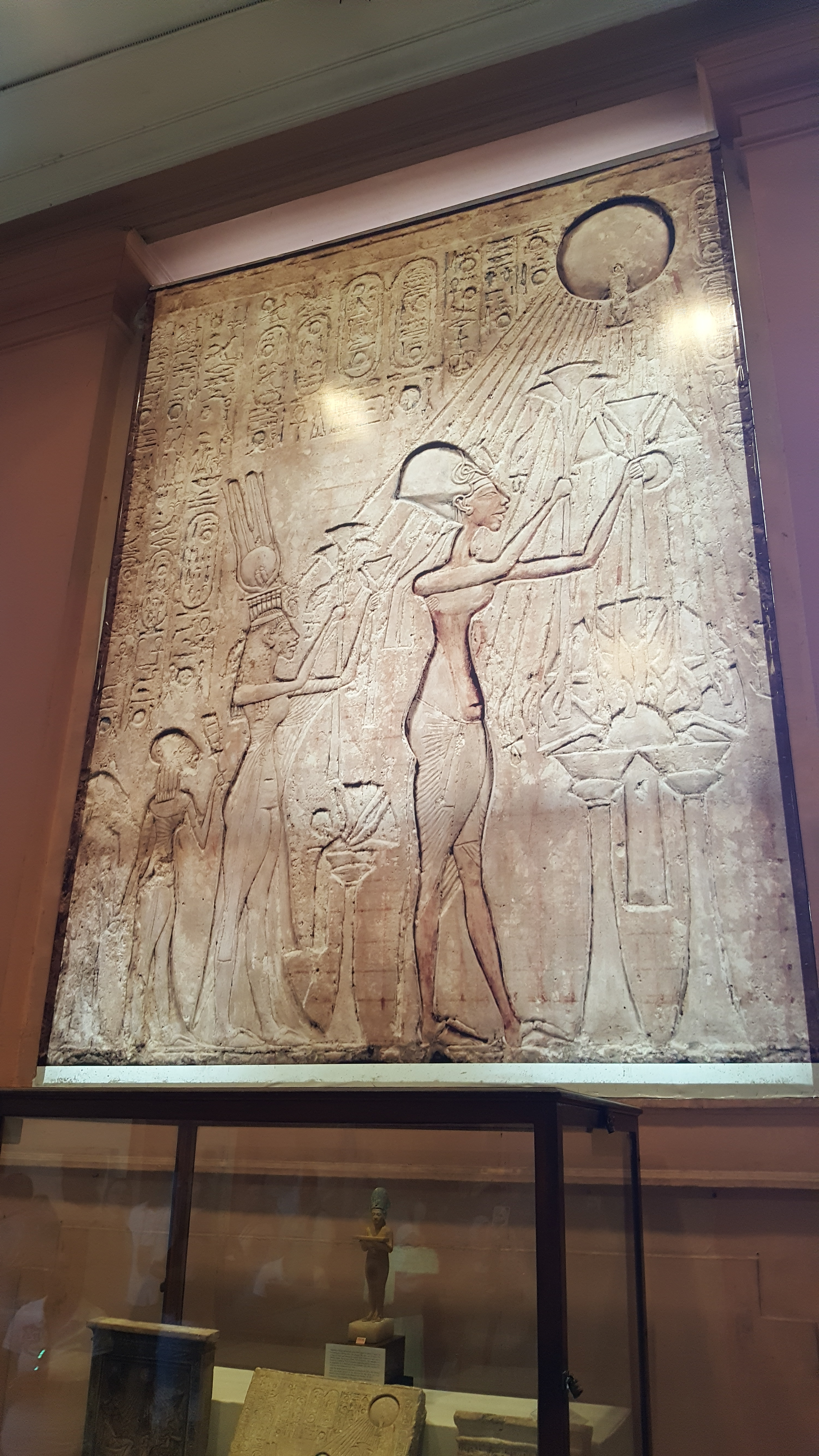 Relief of Akhenaten, Nefertiti and two daughters adoring the Aten. Egypt, Cairo, Egyptian Museum, main floor, gallery 8, TR 10.11.26.4. (H = 53 cm)